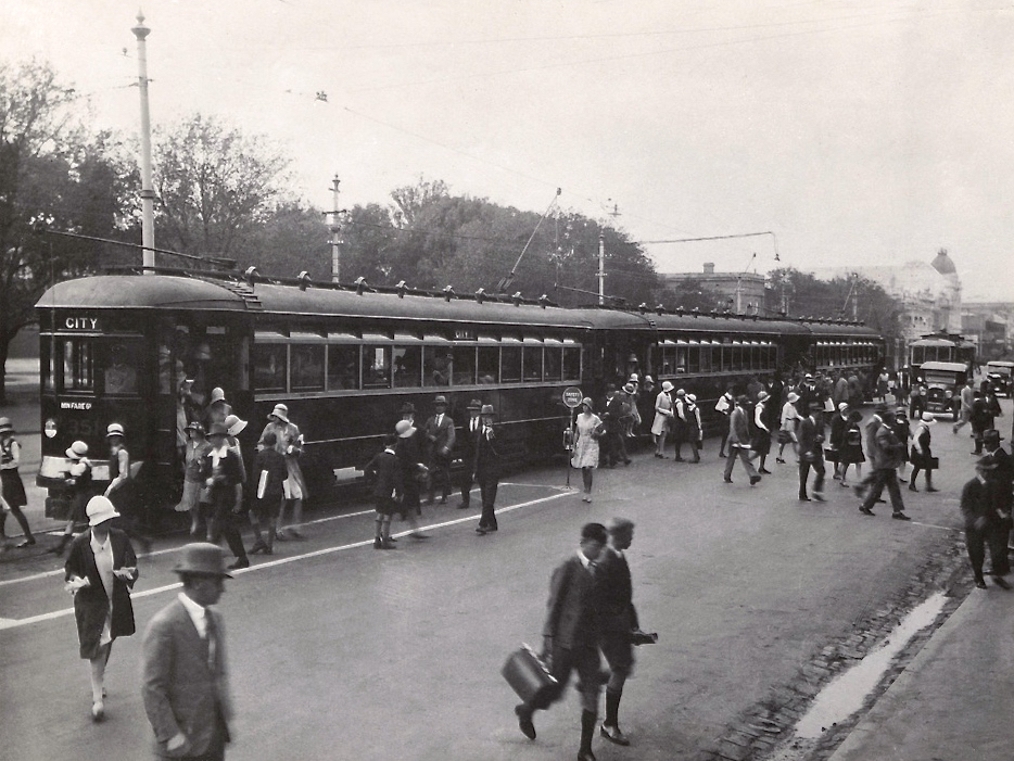 Three coupled-together Type H trams of Adelaide's Municipal Tramways Trust at the Glenelg line's northern terminus, Victoria Square, about 1930. On the front of the leading car is its number, 351, and "City" and "Min fare 6d" (i.e., sixpence or 2.5 cents in Australian decimal currency). Women, men and schoolchildren alight into the street; a painted rectangle and "safety zone" sign is evident. A four-wheeled tram, introduced 20 years earlier, is behind.